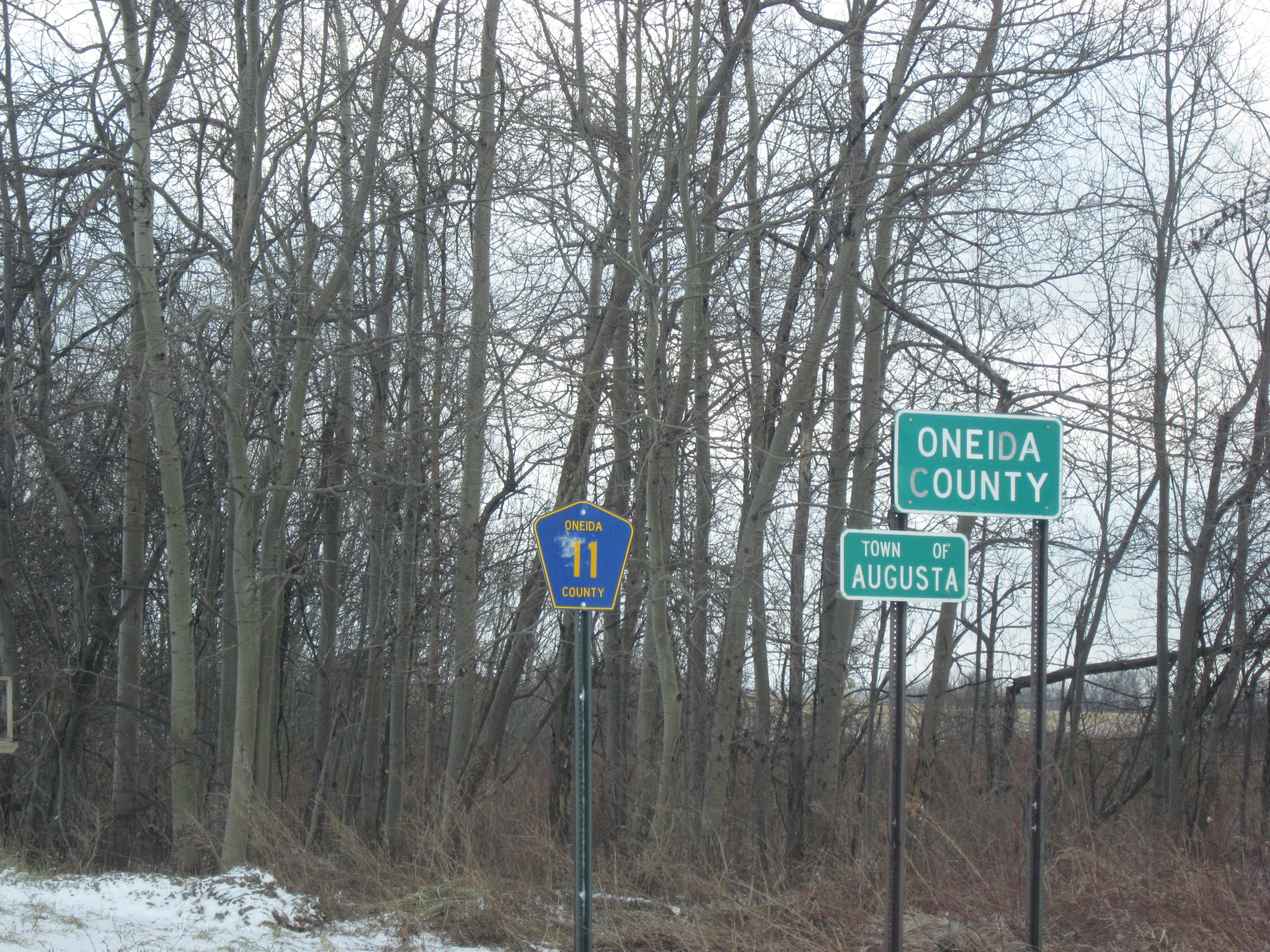 Oneida County Route 11 signage at its eastern terminus, the Madison County line in Augusta.